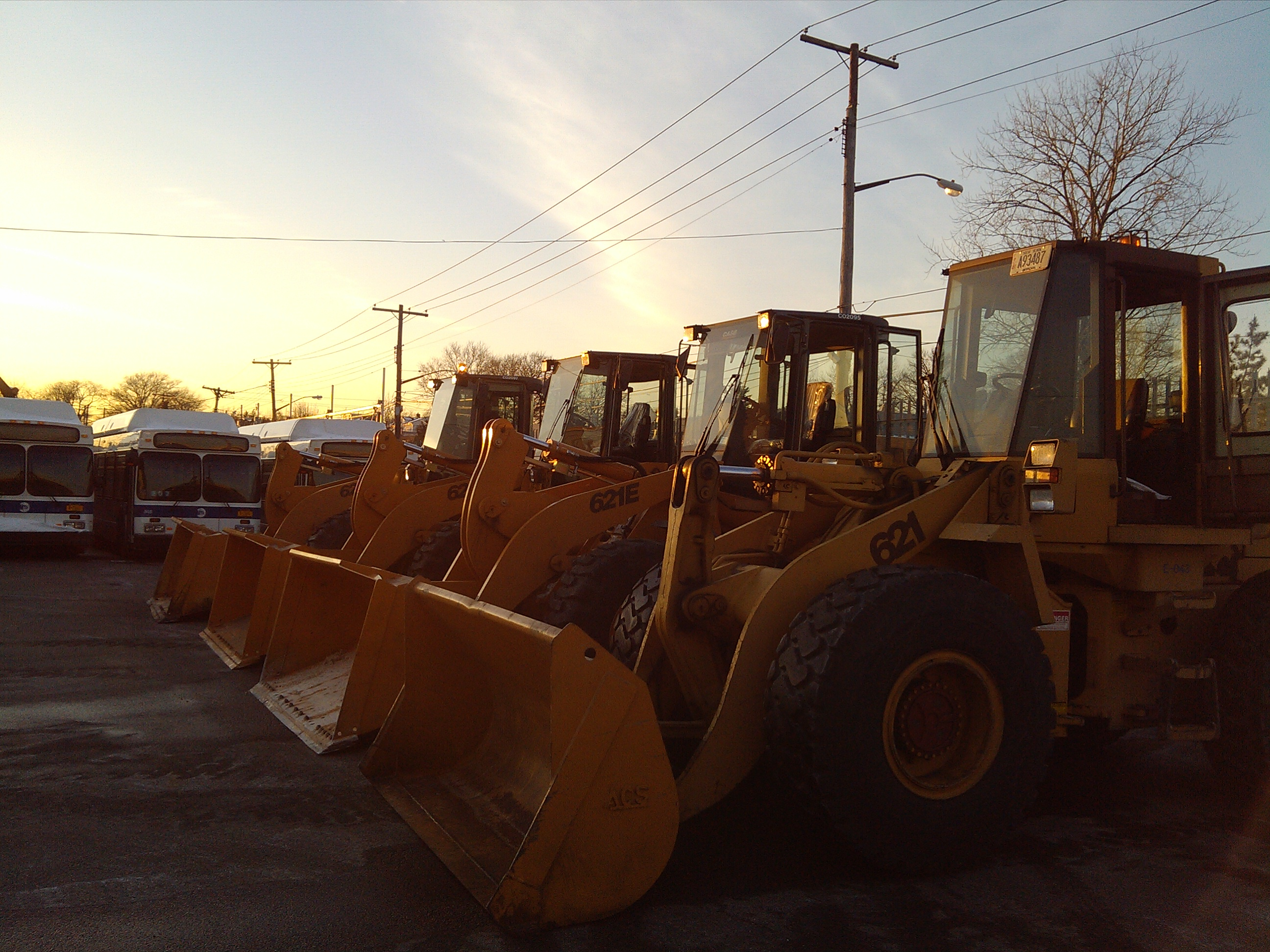 Pay loaders from MTA New York City Transit Buses await transfer from the College Point Depot on lowboy trucks. Nine are being sent to Suffolk County to assist with snow clearing operations, each being escorted with supervision and operators.